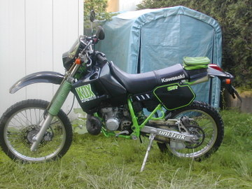 Kawasaki KDX 200 SR